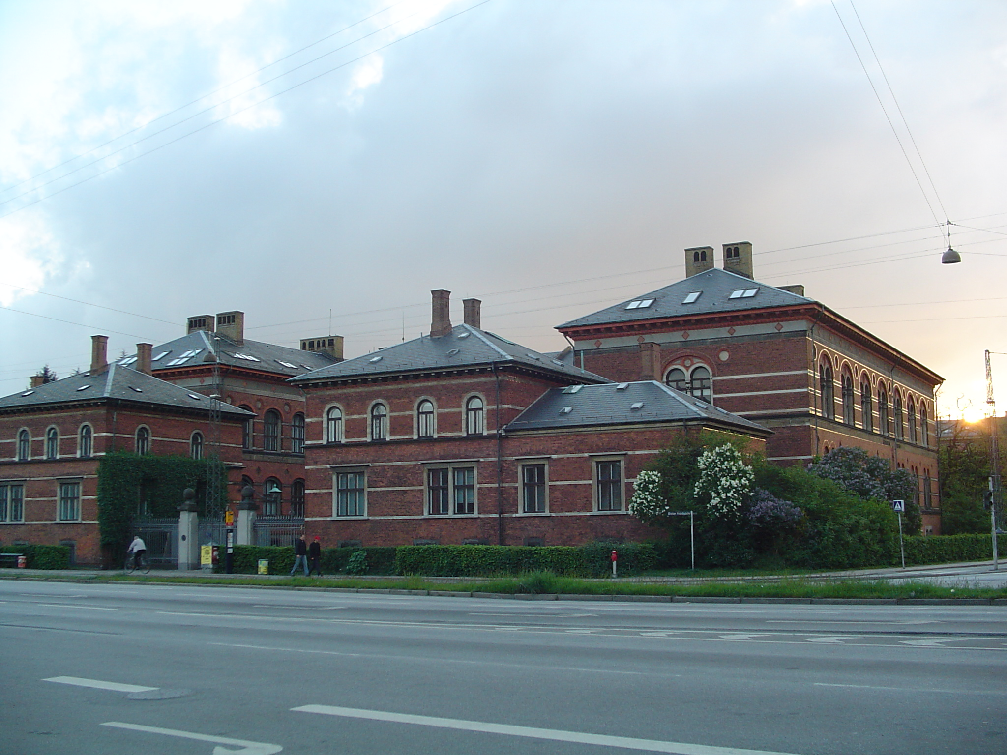 University of Copenhagen Geological Museum. Taken by me on 25/5-2005.